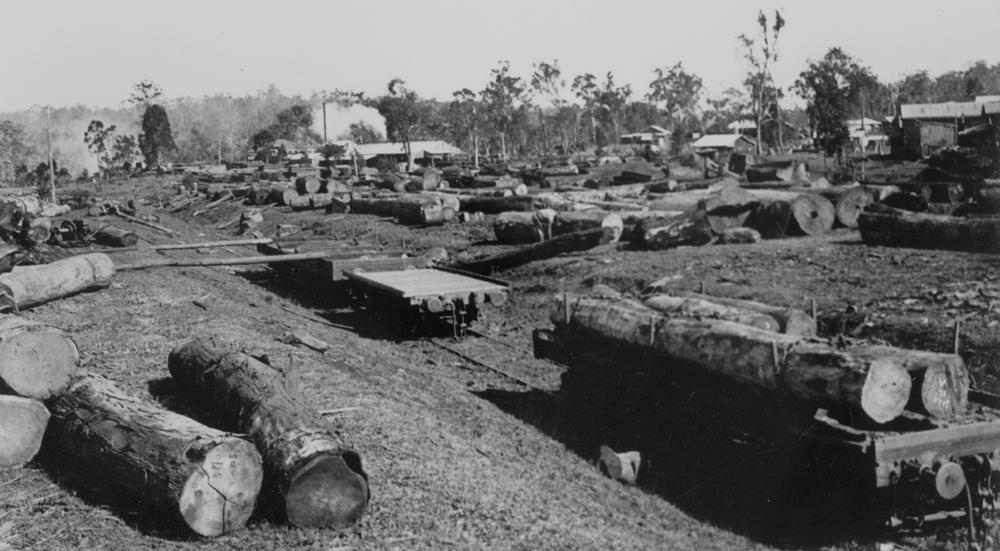 Lumber yards at a Ravenshoe sawmill, 1934 Large sawn logs lay on the ground in a Ravenshoe sawmill. The yard has a railway track with wagons for transporting the logs.